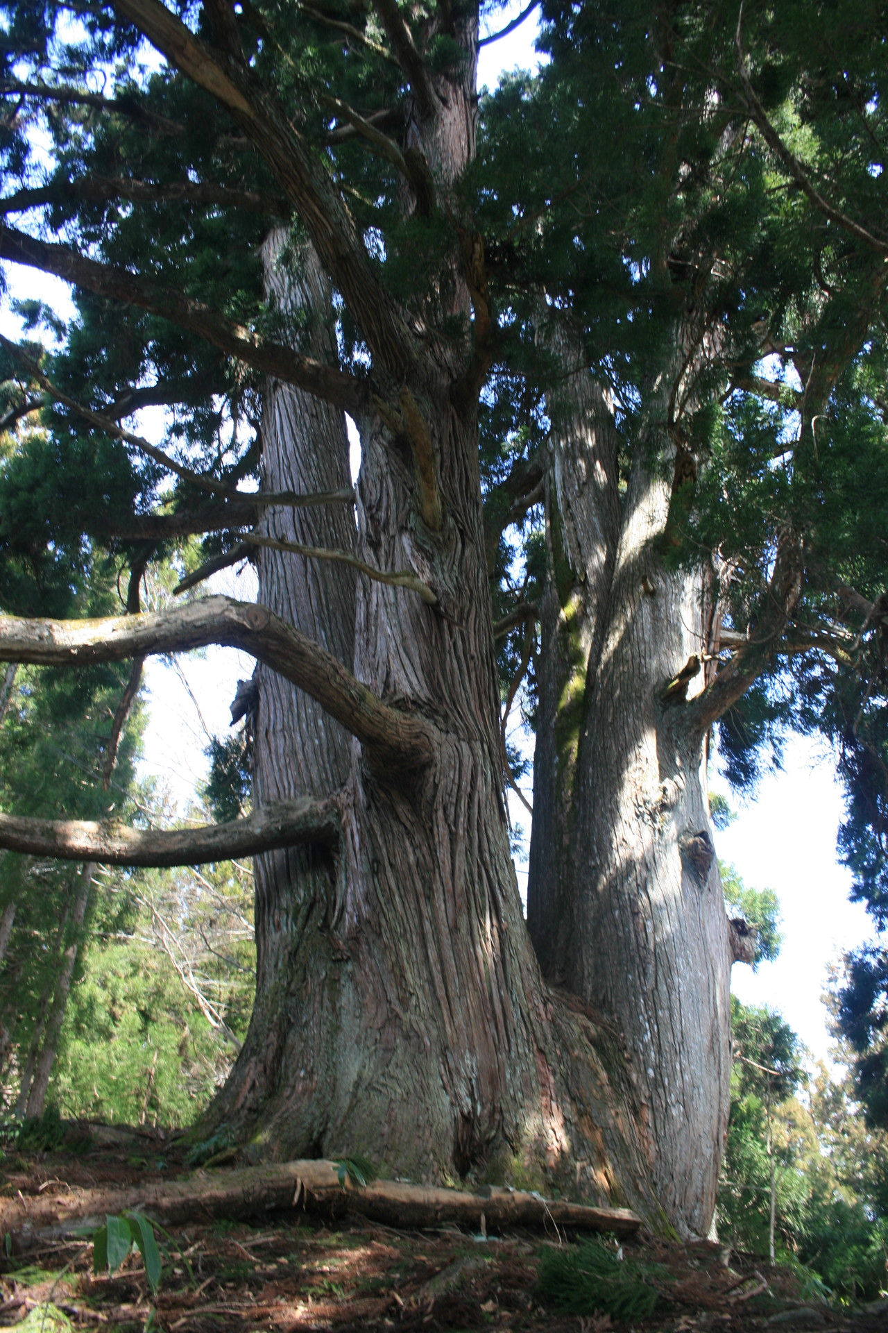 Joan Cryptomeria — a famous Sugi Cryptomeria japonica tree, a species endemic to Japan.